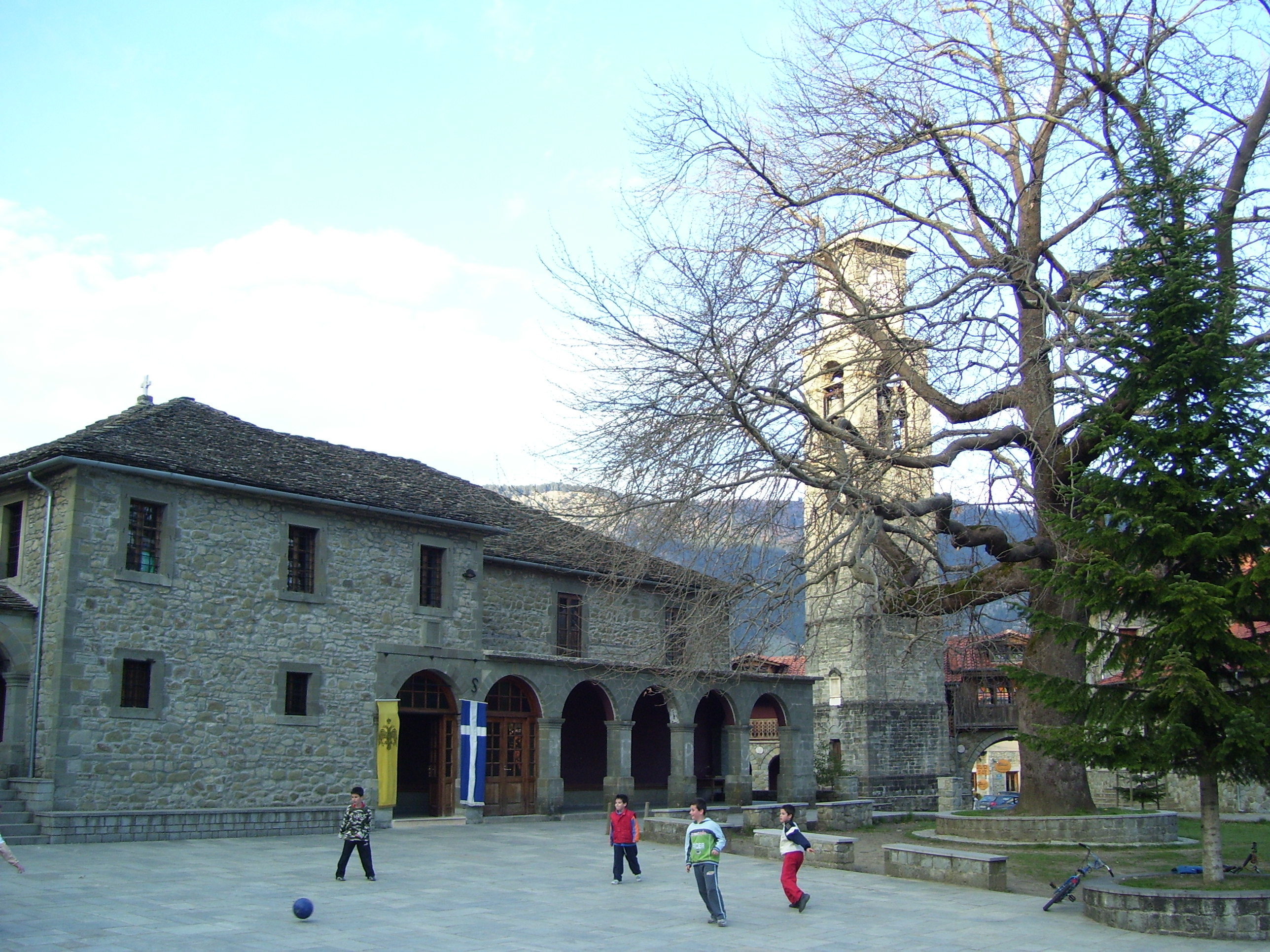 "Agia Paraskevi" Church in the town of Metsovo, Greece.